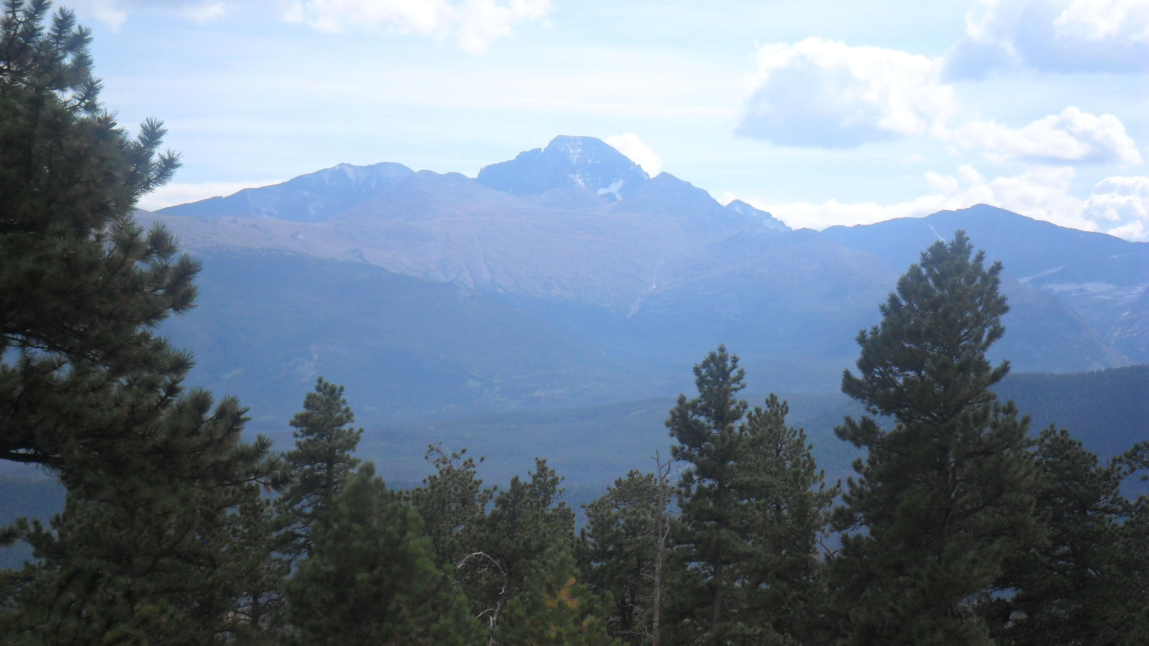 longs peak in RMNP